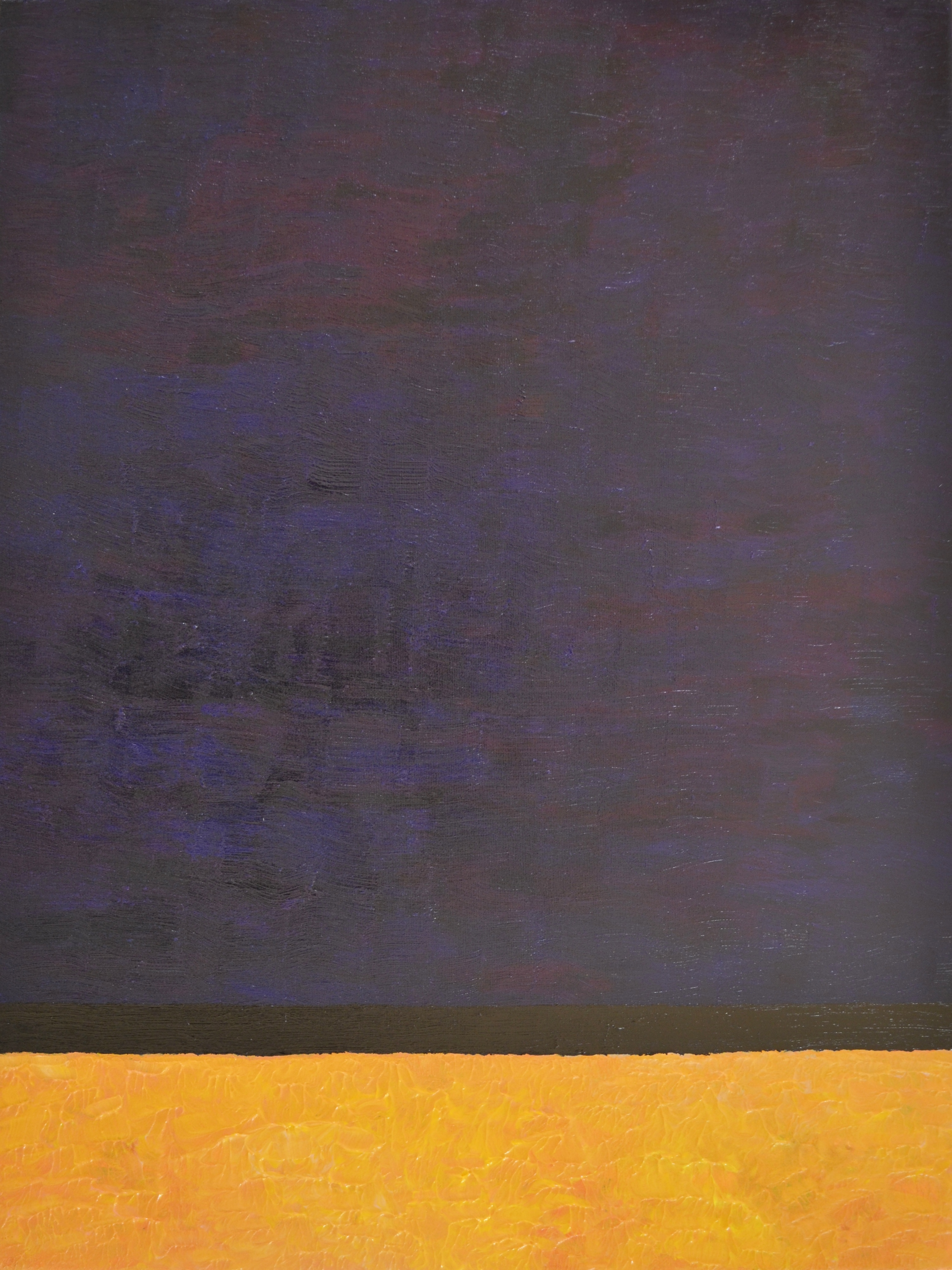 Example of abstract art, Natalia Plachta Fernandes, Srpski (latinica): Primer apstraktnog slikarstva, Natalia Plachta Fernandes